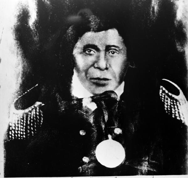 Portrait of Chief Buffalo, over-painted enlargement, possibly from a double-portrait (possibly an ambrotype). Grandson of Great Chief Buffalo. Chief Buffalo was a principal Chief of the Lake Superior Band of Chippewas.